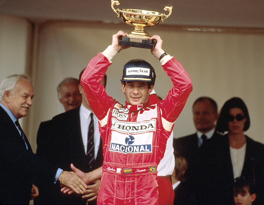 Ayrton Senna at the 1992 Monaco Grand Prix, with Prince Rainier and Princess Stephanie.